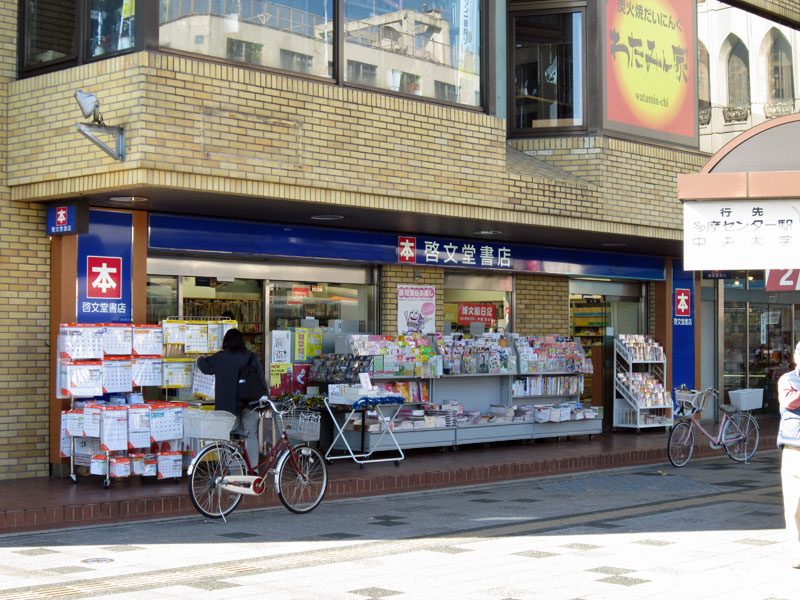 Keibundo Bookstore (Toyoda Sta.), Hino, Tokyo, Japan